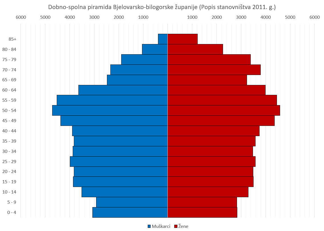 Population pyramid of Bjelovar-Bilogora County. Version in Croatian. Data from 2011 Census; available at